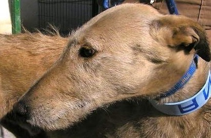 Galgo Español, Spanish Galgo or Spanish Greyhound (Anis), rough-coated